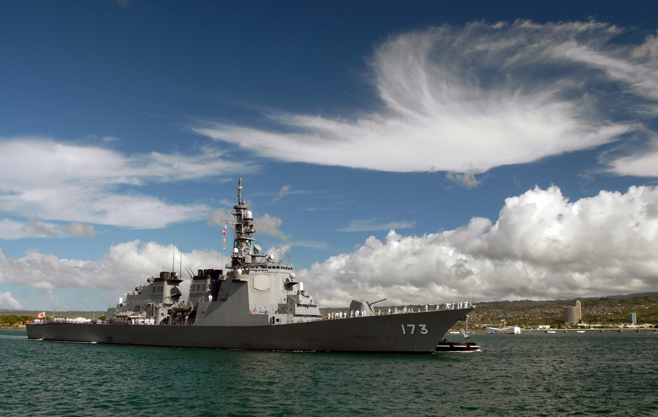 Japanese destroyer JS Kongo (DDG-173) passes the USS Arizona Memorial as she makes her way pierside Naval Station Pearl Harbor. Kongo is the first Japanese ship with the capability to detect, track, and intercept short- to medium-range ballistic missiles. Later this year, Kongo is scheduled to conduct a flight test designated Japan Flight Test Mission-1, at Pacific Missile Range Facility, Hawaii. U.S. Navy photo by Mass Communication Specialist 1st Class James E. Foehl (RELEASED)